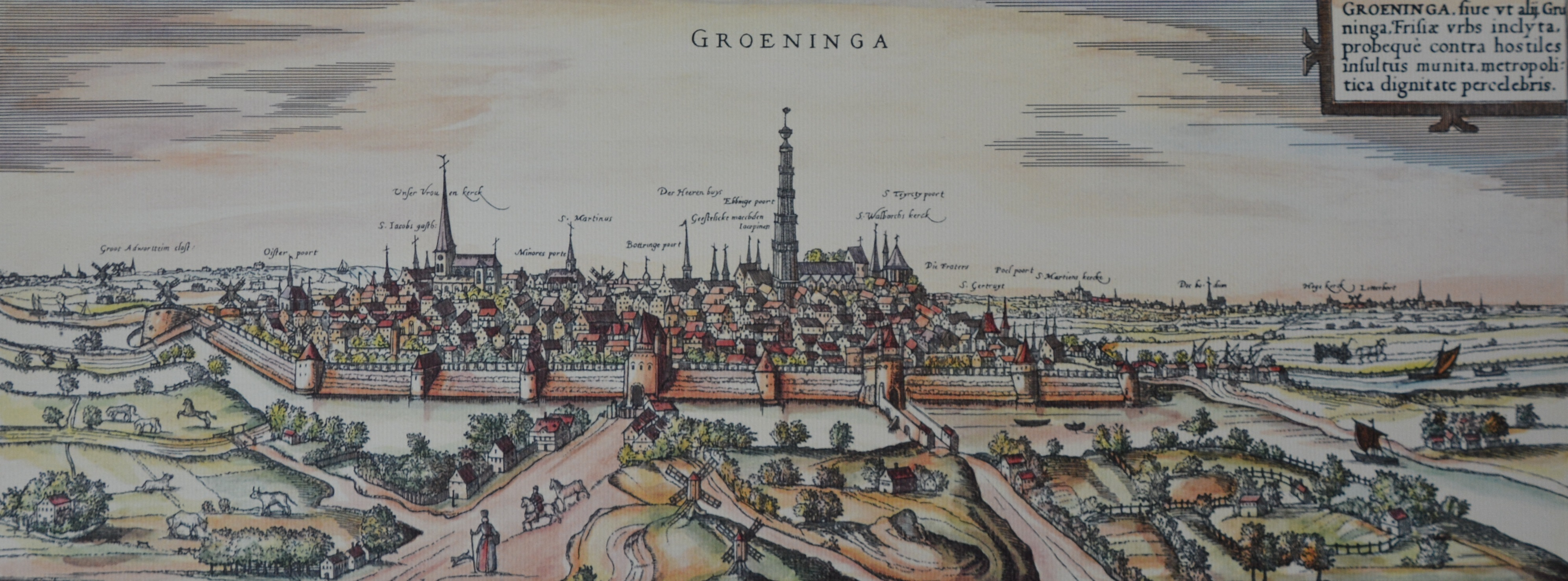 Groningen 1565 by Georg Braun and Frans Hogenberg